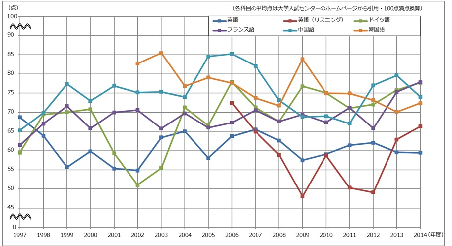 The graph of average score of Foreign languages (National Center Test for University Admissions)